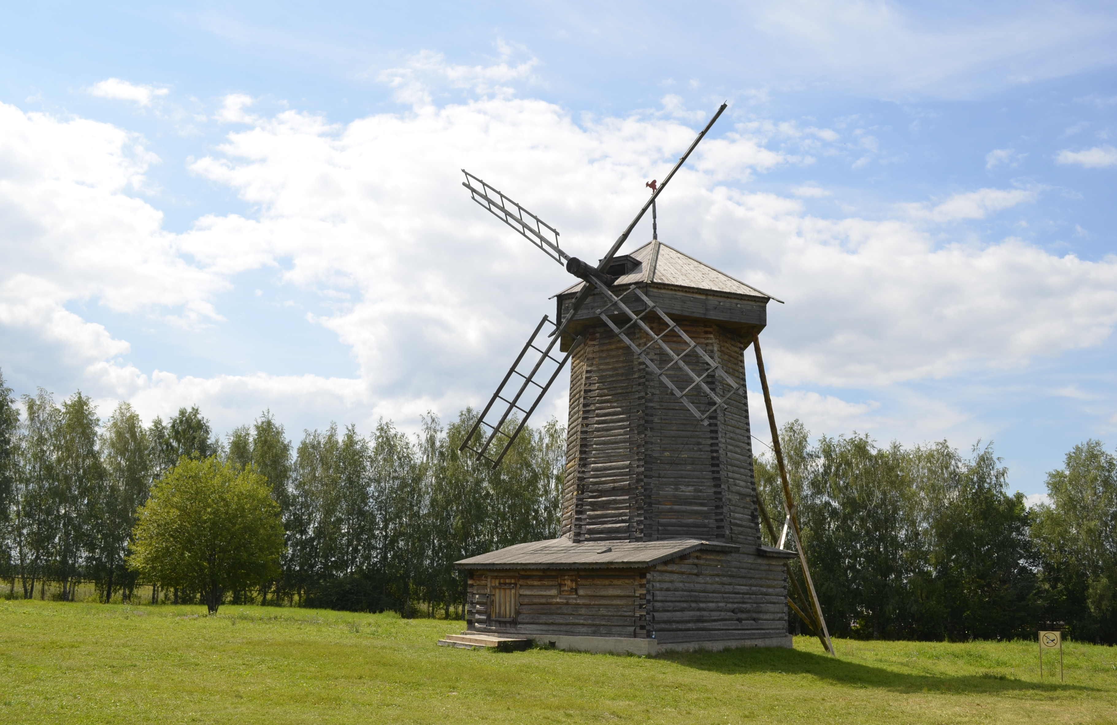 Smock mill in Suzdal wooden architecture museum (Russia, 2012).